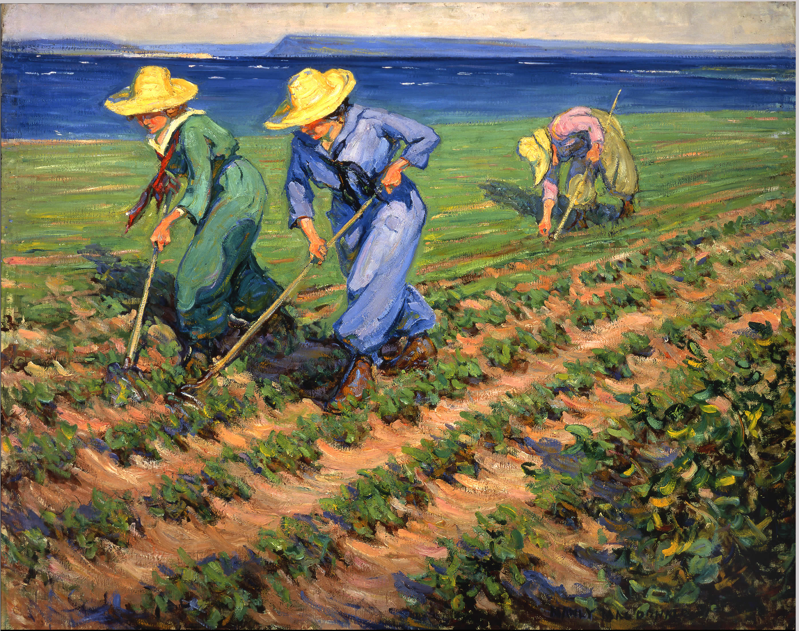 This painting by Manly MacDonald was created for the Canadian War Memorials Fund, an organization established to document Canada’s First World War effort. In this painting, MacDonald depicts farmerettes in the Niagara Region. There was no uniform for the farmerettes, but the young women who volunteered their services learned to war loose-fitting dressings to accommodate the heavy labour involved in working the land and broad-brimmed hats to protect against the sun. In 1918, 2,400 women served as farmerettes and assisted fruit farmers in the Niagara region.